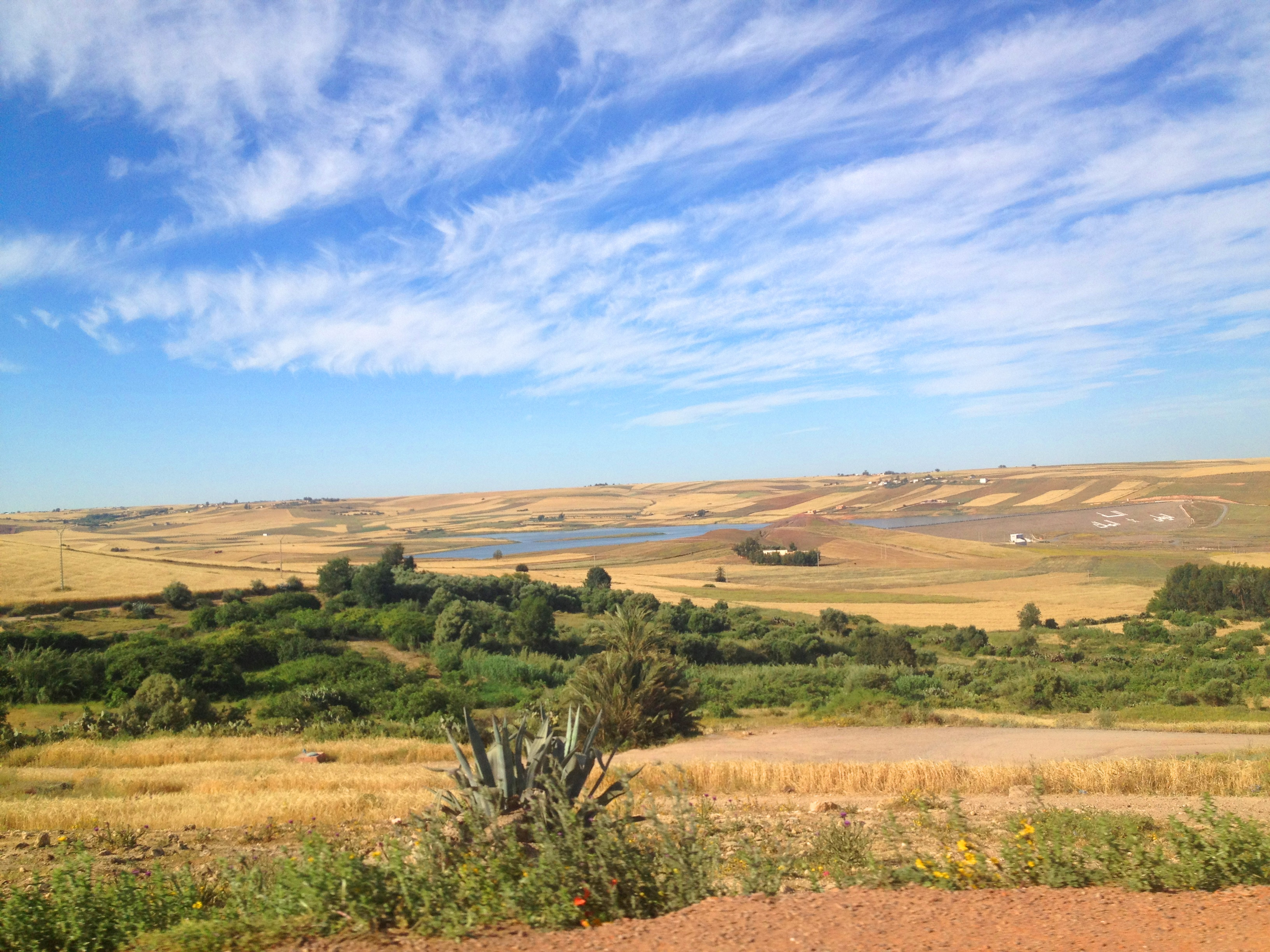 harvest time. Chaouia_Morocco.